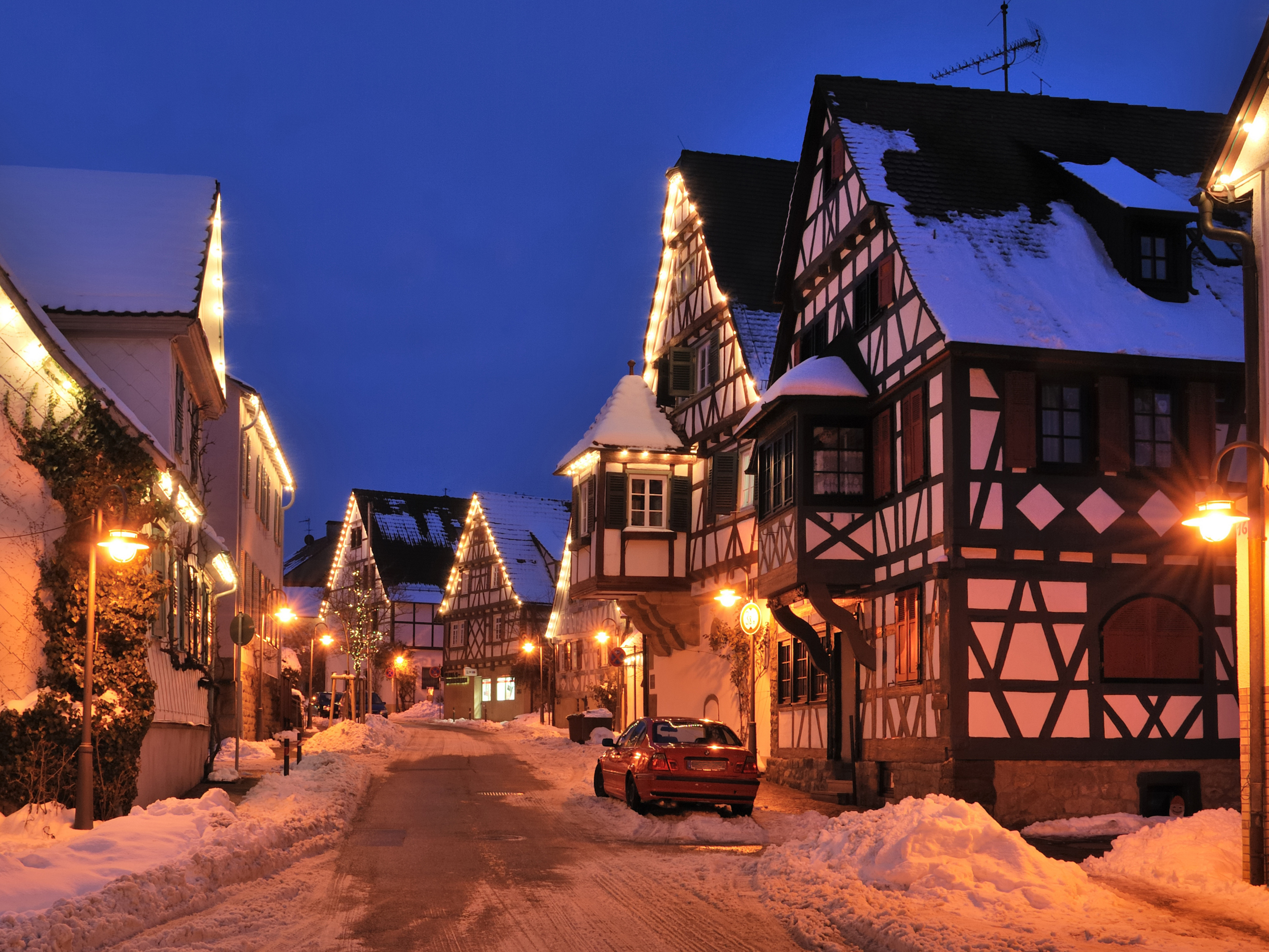 The historical center of Schöckingen in Baden-Württemberg in Germany, with christmas illuminations.